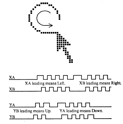 Figure 2 from Richard Lyon's 1981 report Xerox PARC blue-book report (1981) "The Optical Mouse and an Architectural Methodology for Smart Digital Sensors" at